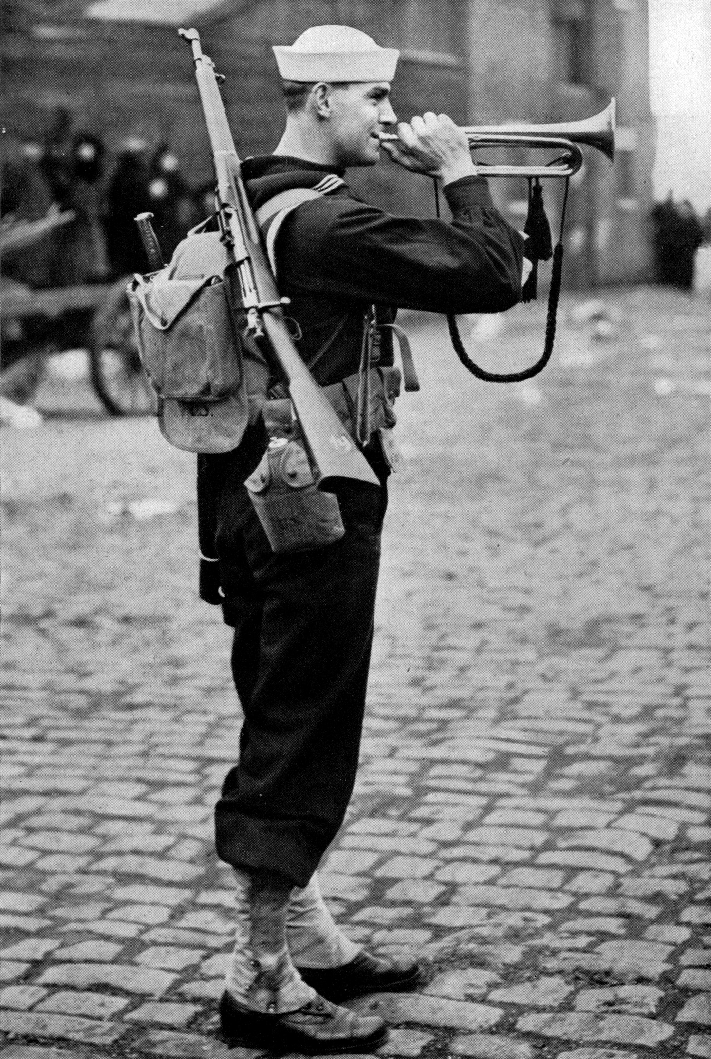 A NAVAL MILITIA BUGLER SOUNDING A CALL "TO THE COLORS". In twenty million American homes fathers and sons are waiting for this call, and when the summons comes there will be no shirking of responsibility. Mothers, wives, and daughters also will hear this challenge, and with hearts steeled to sacrifice will bravely bid farewell to those who go to battle for America and humanity.